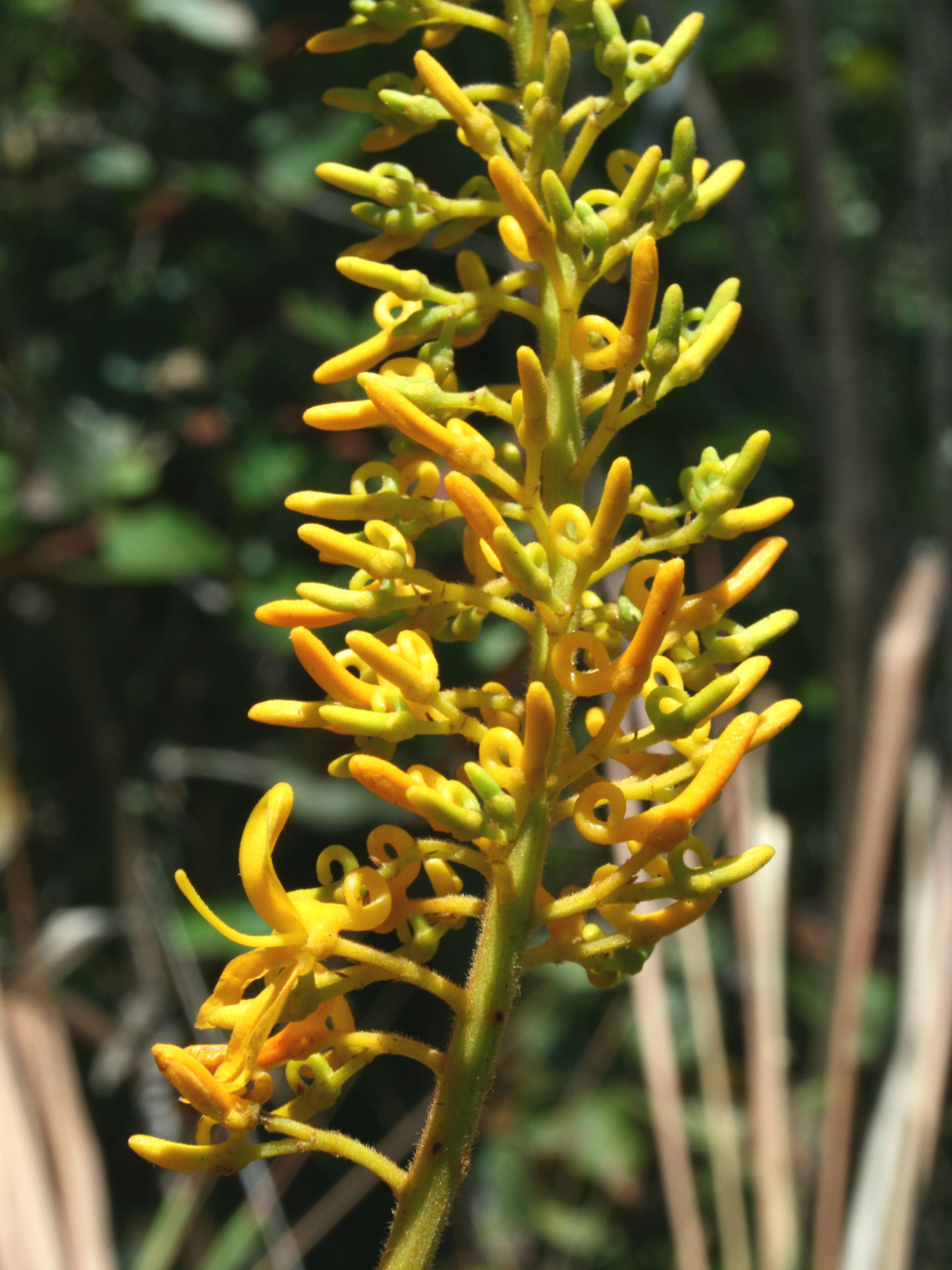 Vochysia ferruginea, Cacuri, Venezuela